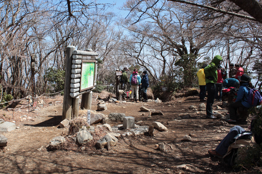 Summit of Banzaburodake which a highest peak of the Mount Amagi in Shizuoka Prefecture, Japan.